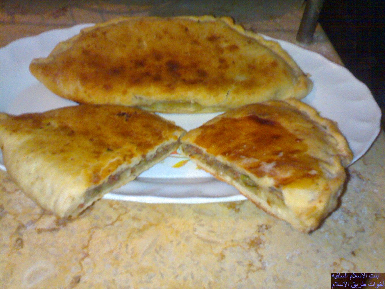 This is an image of food from Egypt